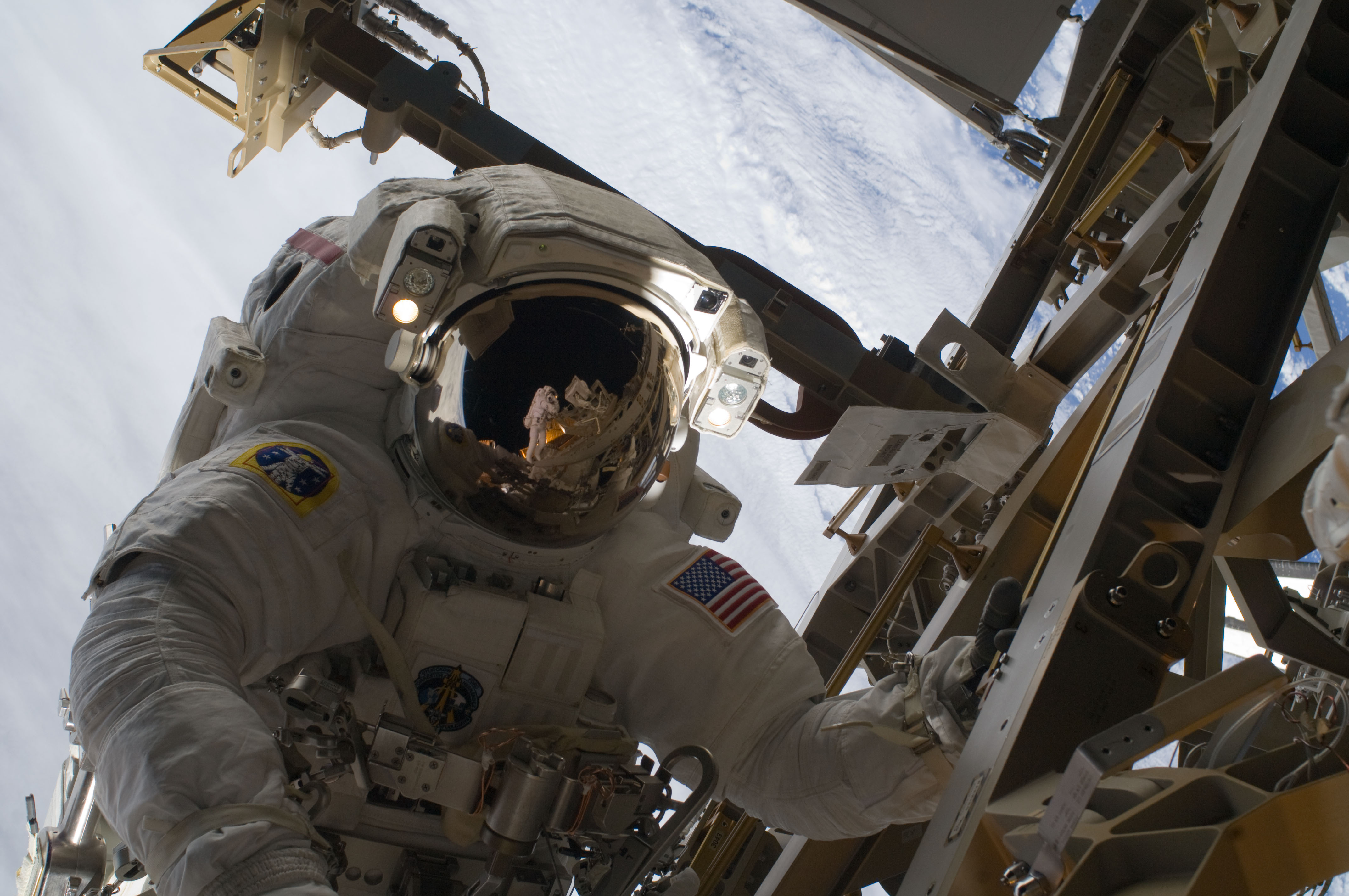 European Space Agency astronaut Christer Fuglesang is visible in the reflection of NASA astronaut Danny Olivas's helmet visor during this, the STS-128 mission's third and final space-walk. Olivas and Fuglesang deployed the Payload Attachment System, replaced the Rate Gyro Assembly #2, installed two GPS antennae and worked to prepare for the installation of Node 3.